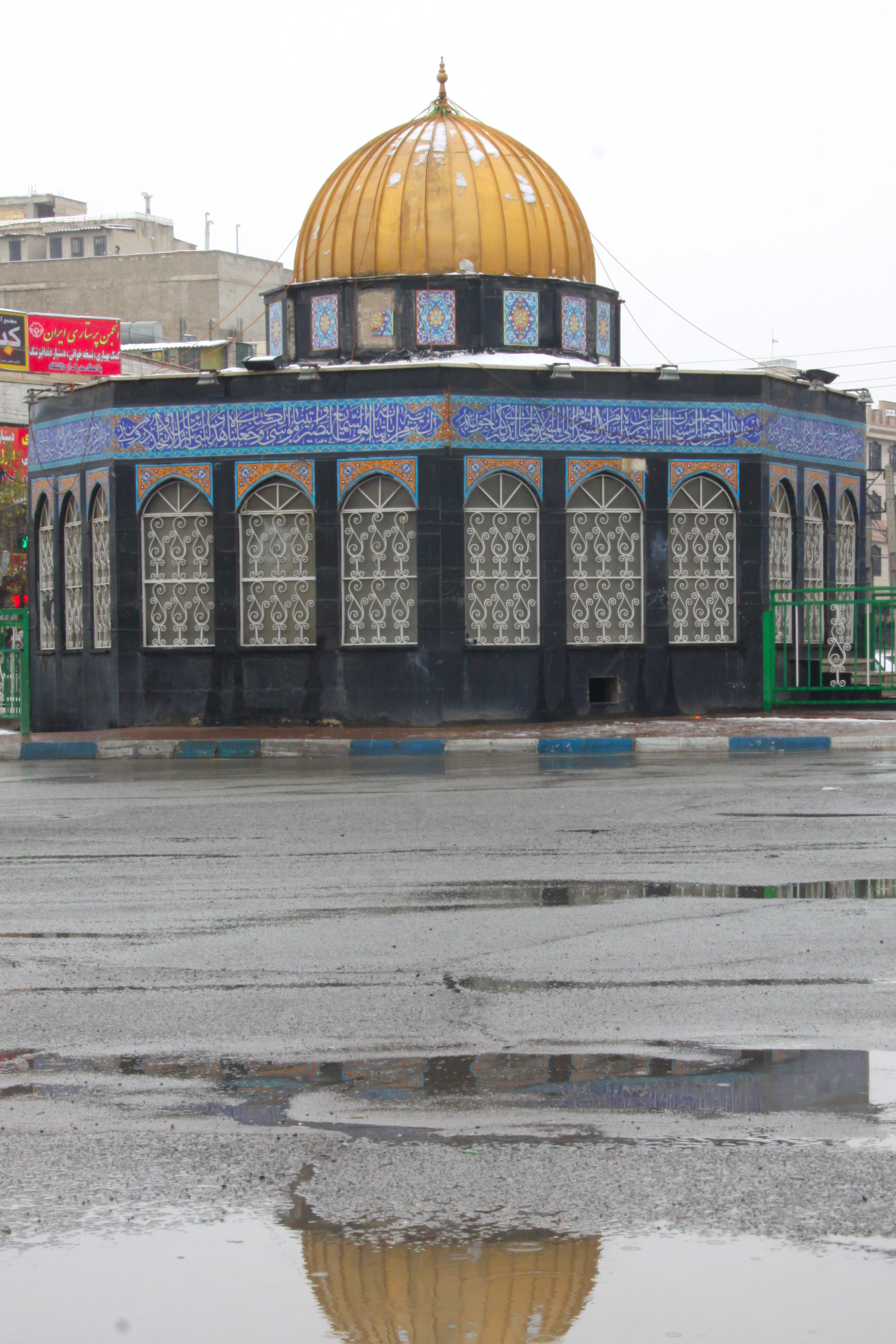 Ghods City / Tehran / Iran / Photo by: Alireza Habibi